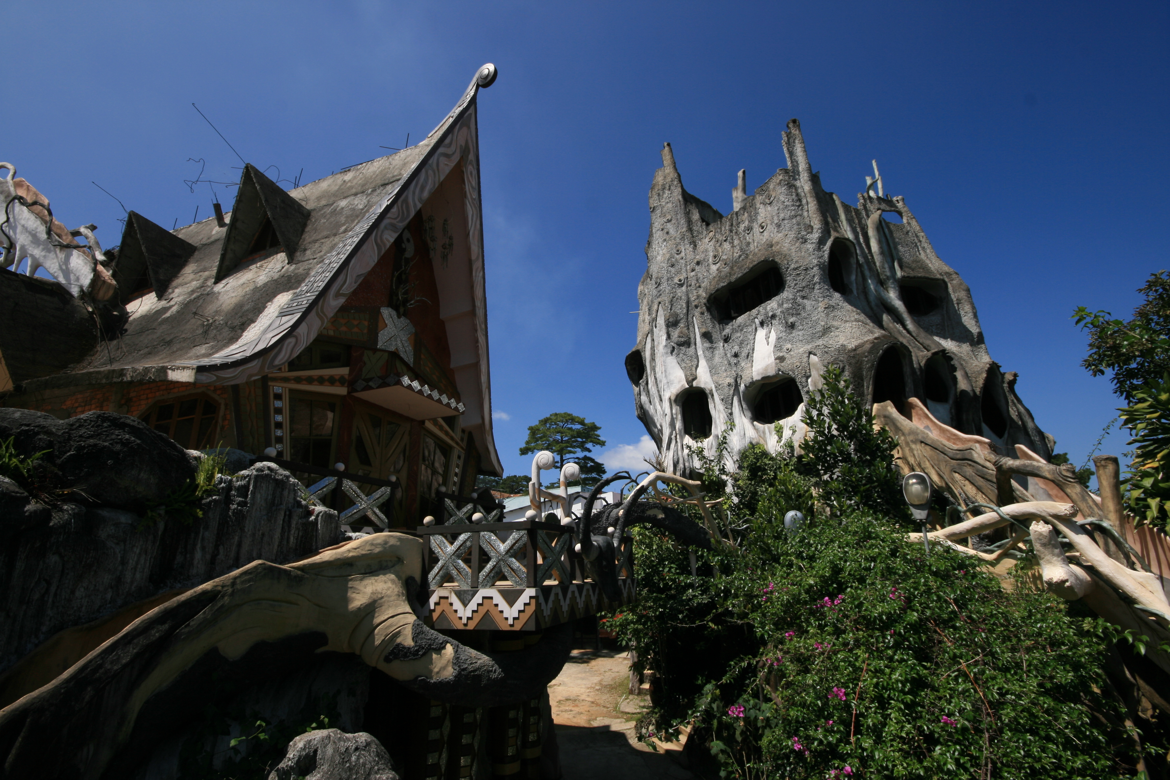 Hang Nga guesthouse